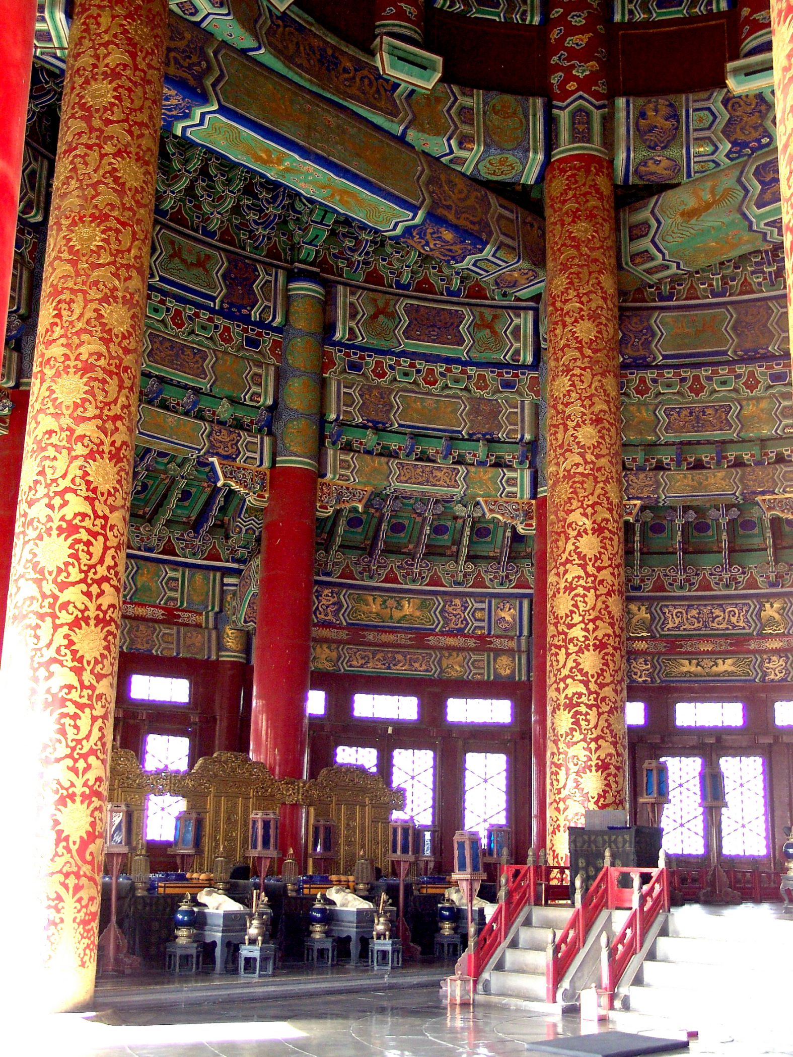 Temple of Heaven Inside